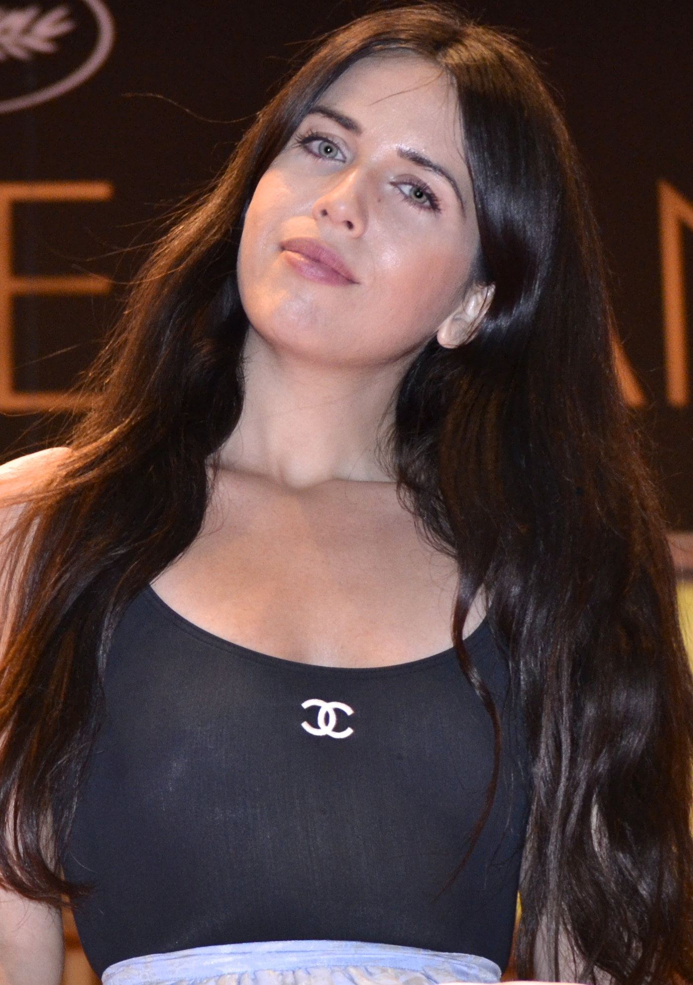 Diana Lado photographed at the red carpet of Festival de Cannes 2015.